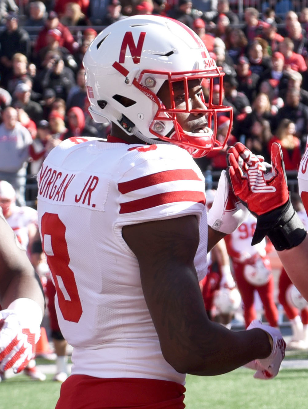 An Ohio State and Nebraska football player shake hands after the coin toss at the Ohio State football game on November 3, 2018, in Columbus, Ohio. This game was dedicated to honoring military men and women for Veterans Day. (U.S. Air Force National Guard photo by Senior Airman Christi Richter).